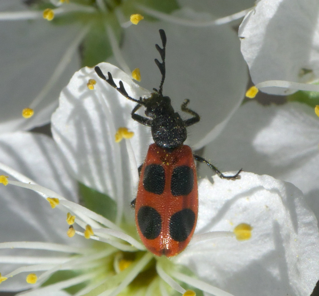 Pelonides quadripunctata, Family: Checkered Beetles, ID Confidence: 98